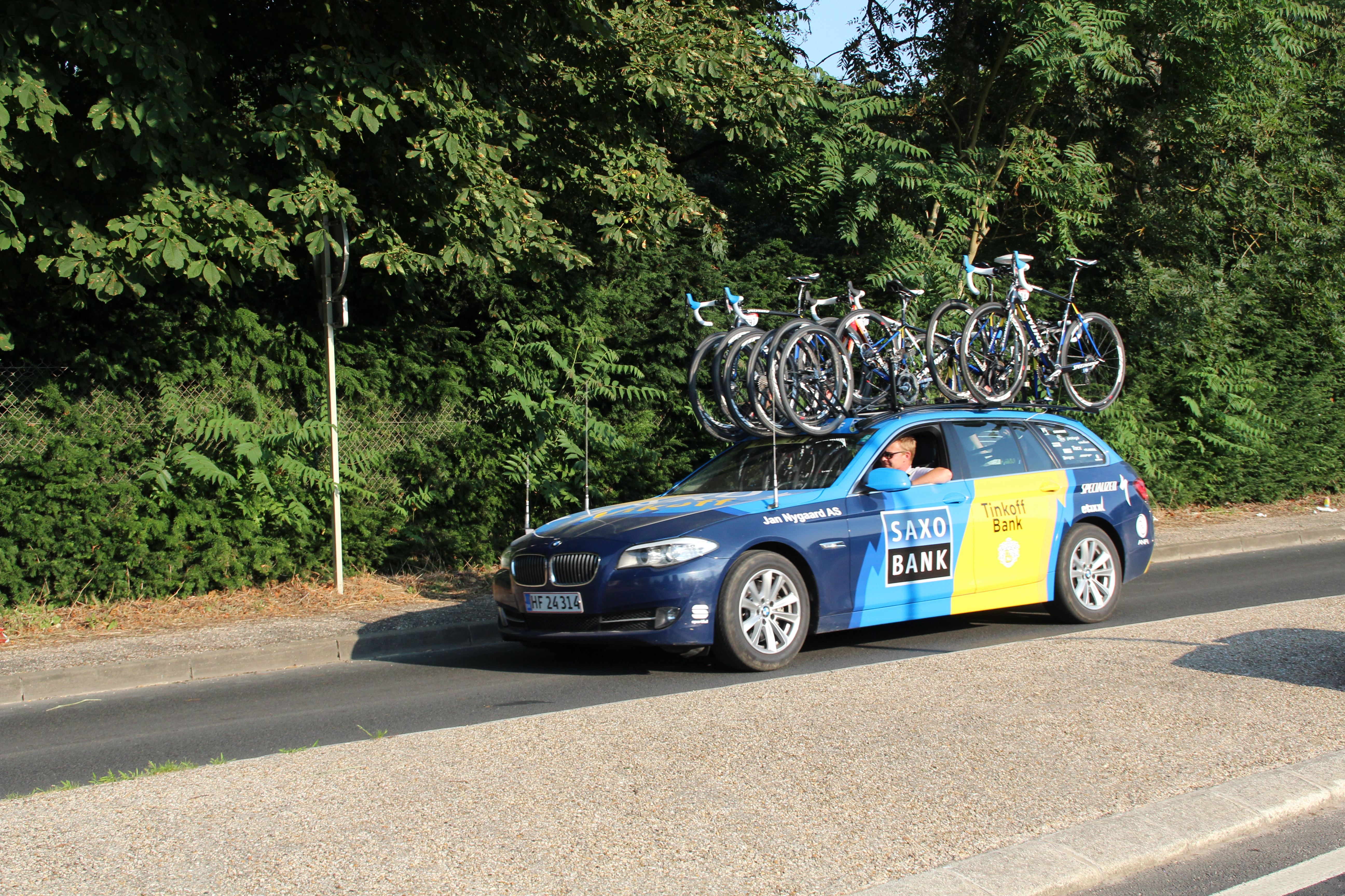 Tour de France 2013 sport event in Saint Rémy lès Chevreuse, France